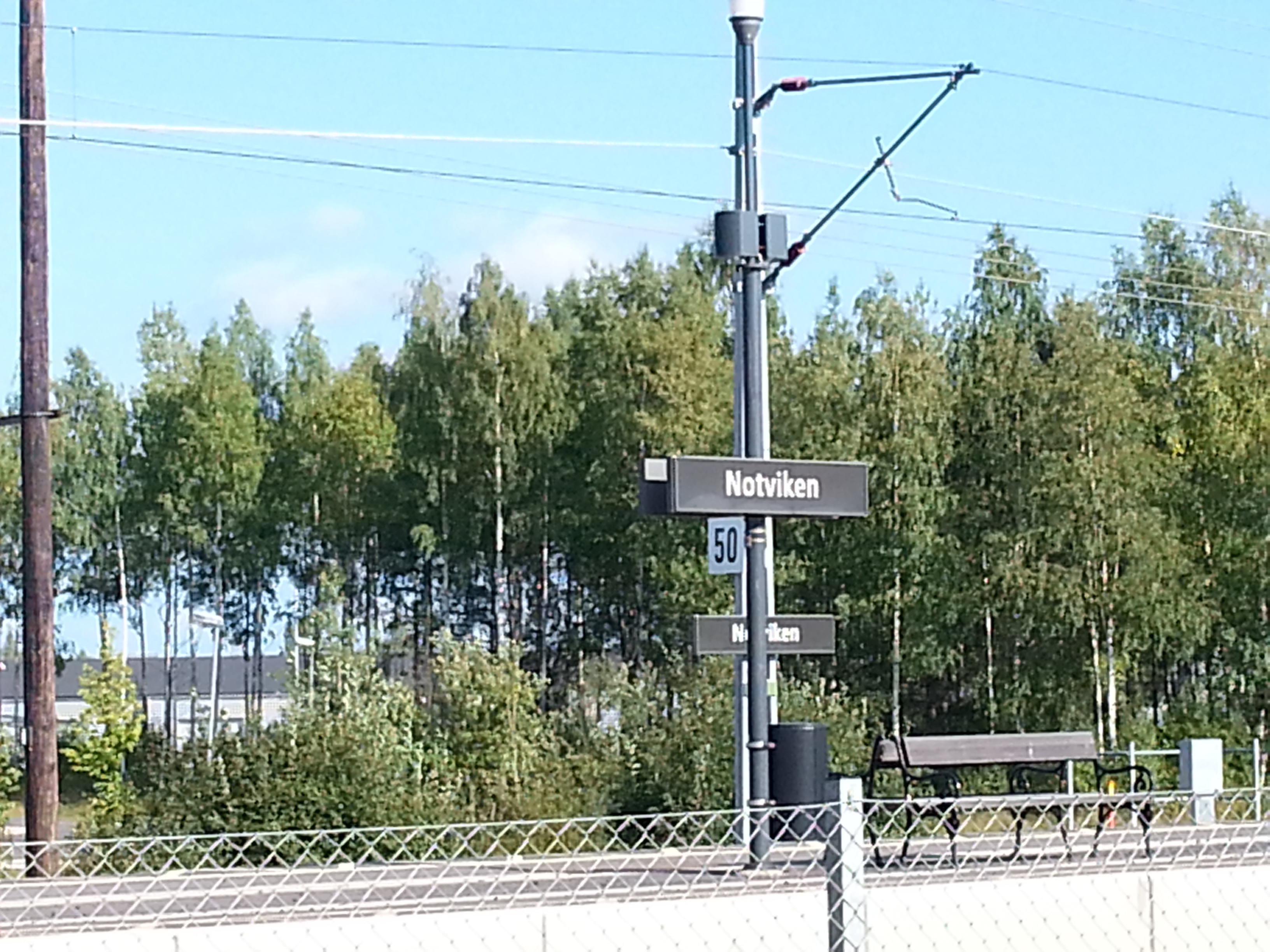 Notviken Stn